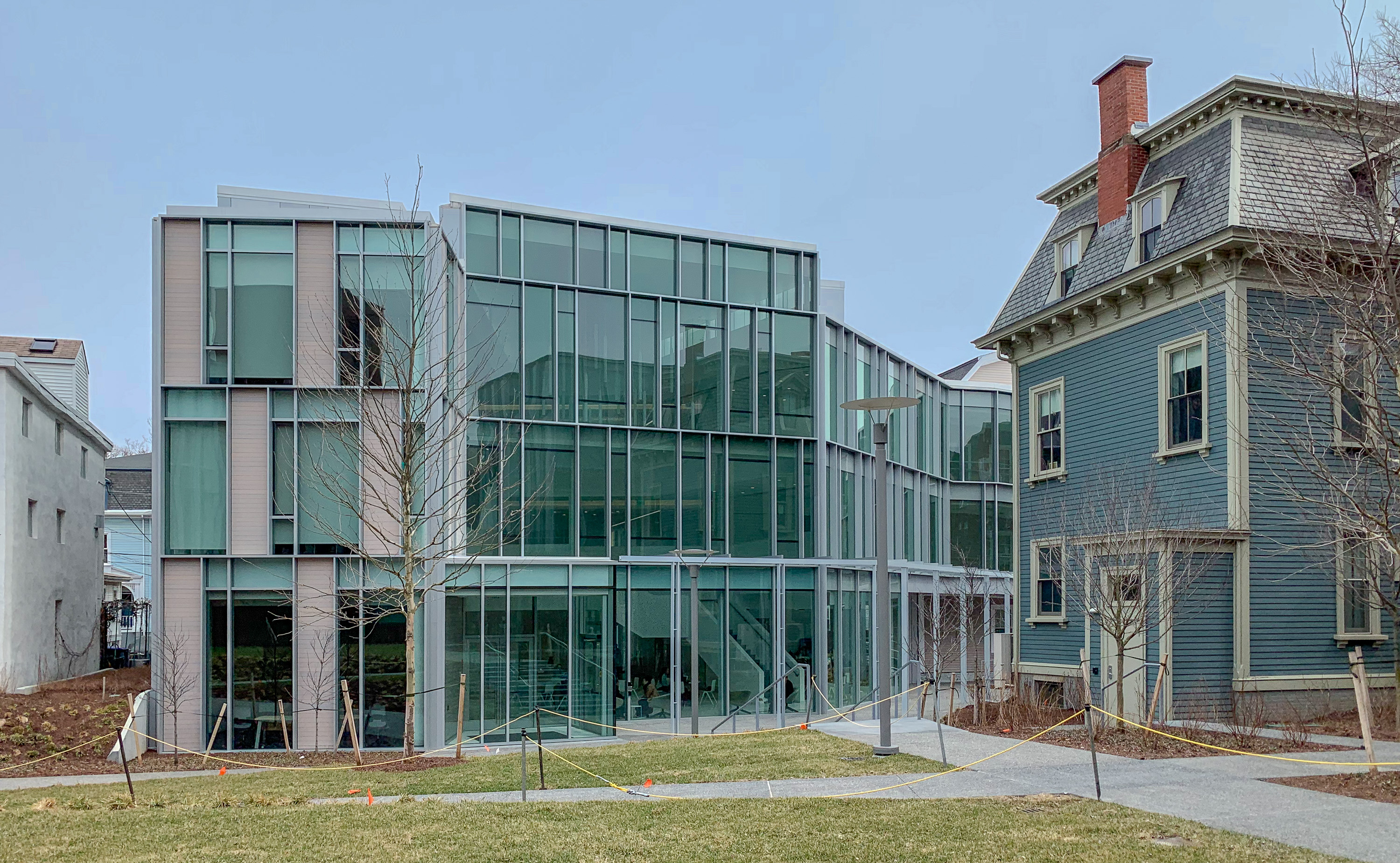 Stephen Robert Hall, rear view from Starr Plaza.